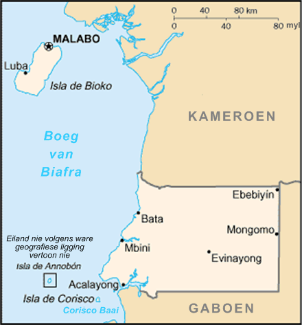 An Afrikaans map of Equatorial Guinea.